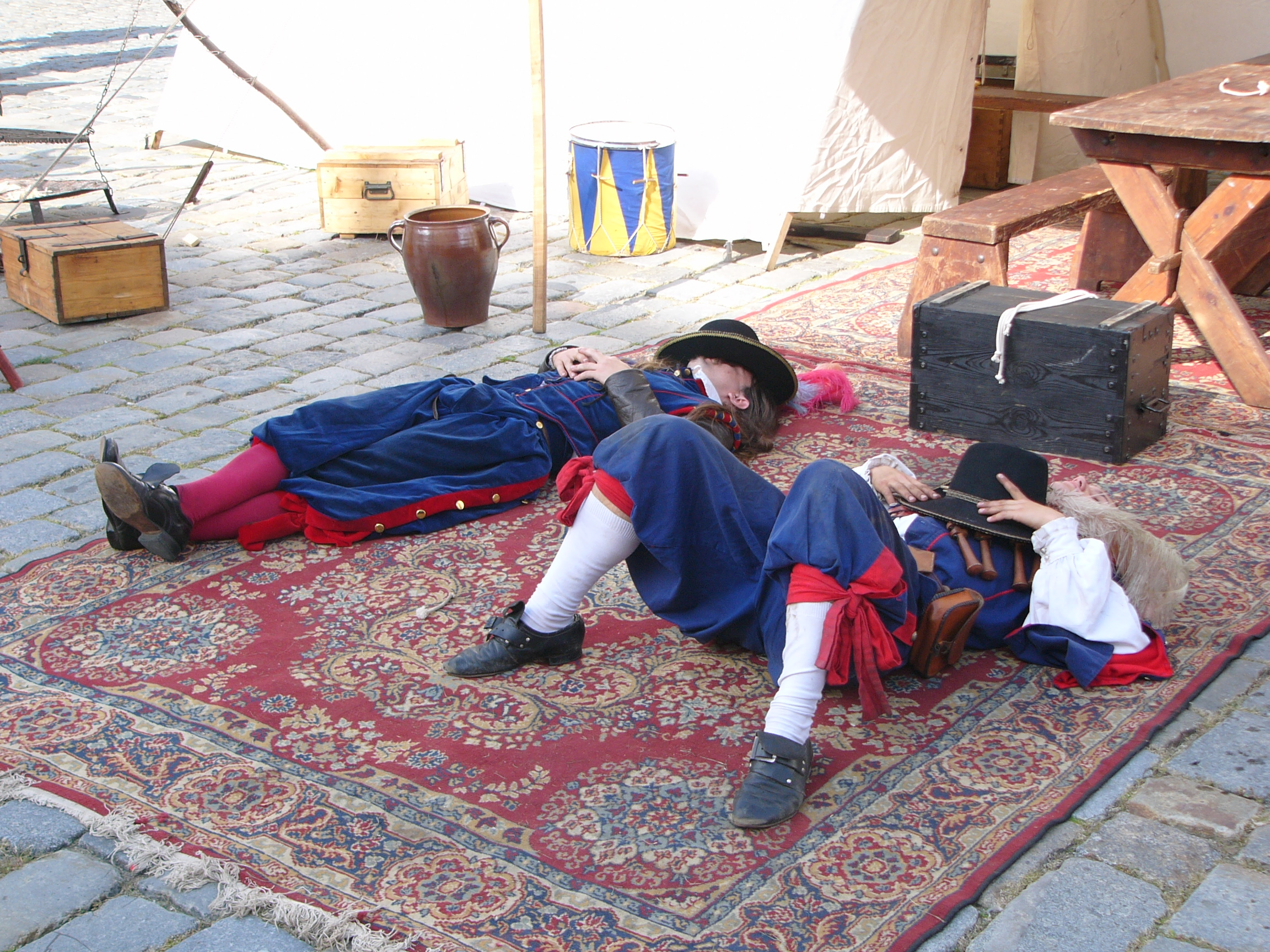 Historical Military camp - Infantry: musketeers.